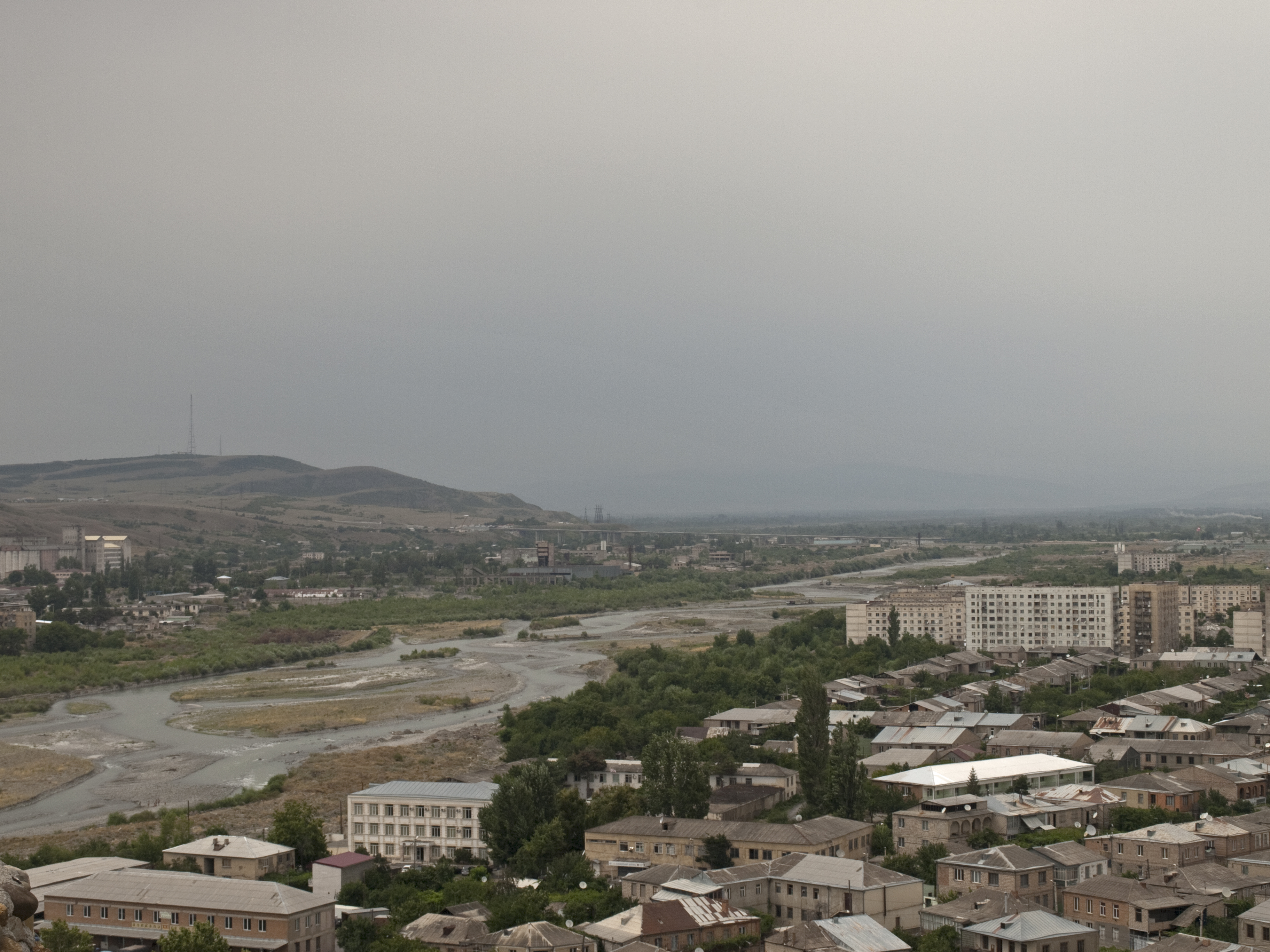 The Great Liakhvi River as seen from the Gori Fortress